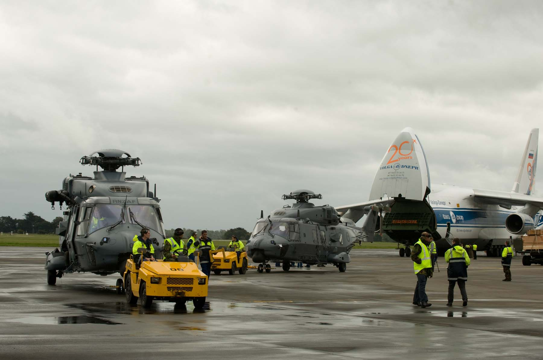 The first two of the RNZAF's new NH90 helicopters are towed to their new home at RNZAF Base Ohakea. 20111206_OH_H1013410_0111.JPG